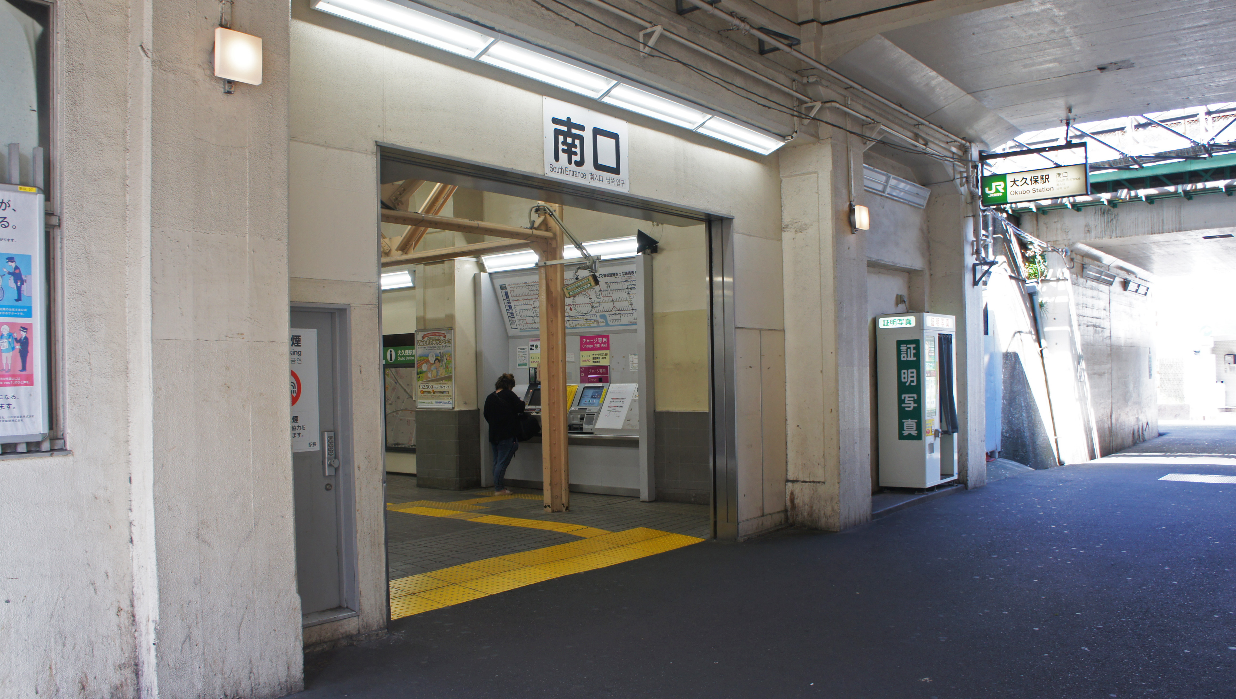 South Exit of JR Chuo-Main-Line Okubo Station